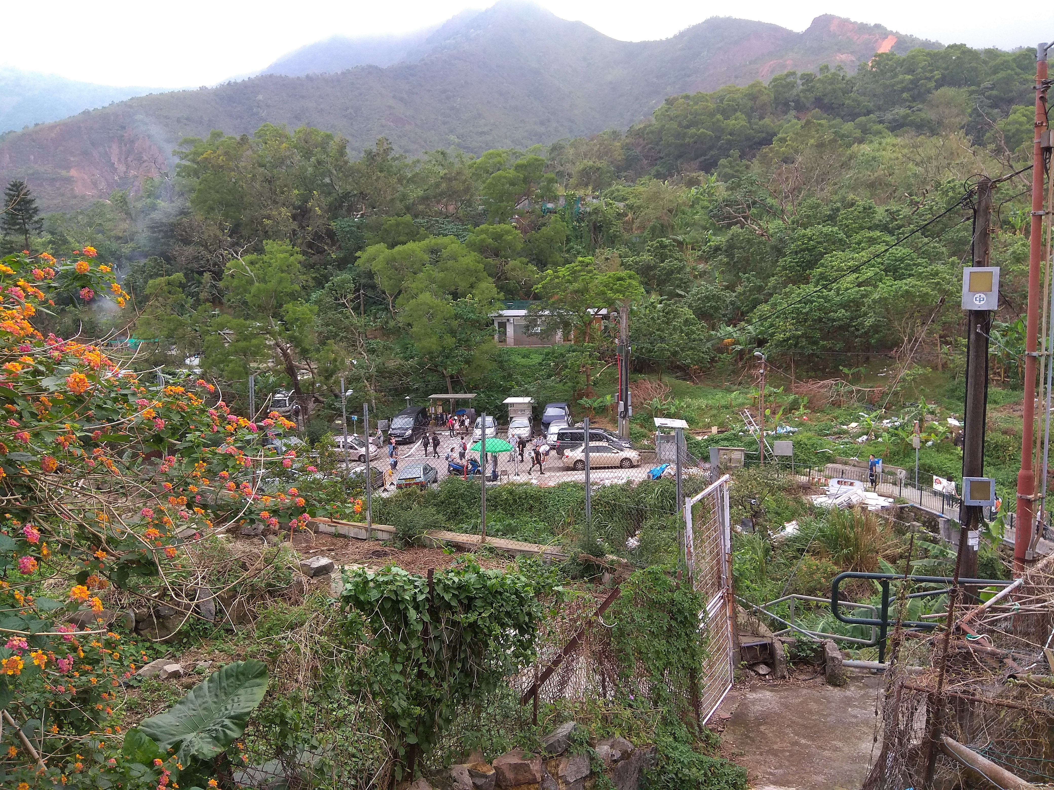 Ma On Shan Village